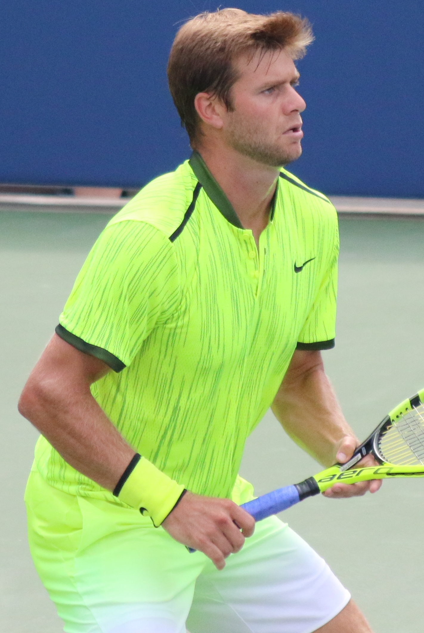 Harrison R. US16 (32)